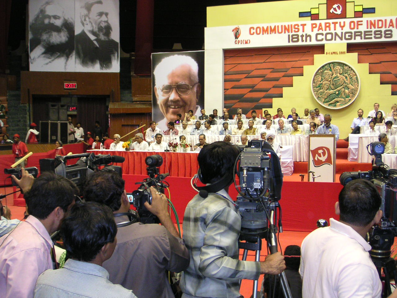 18th congress of the Communist Party of India (Marxist), in Delhi, 2005. Photo: Soman